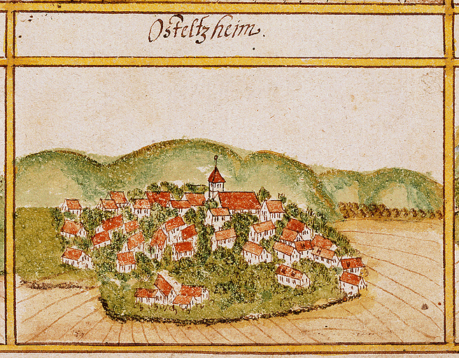 View of Ostelsheim from the forest register books created by Andreas Kieser